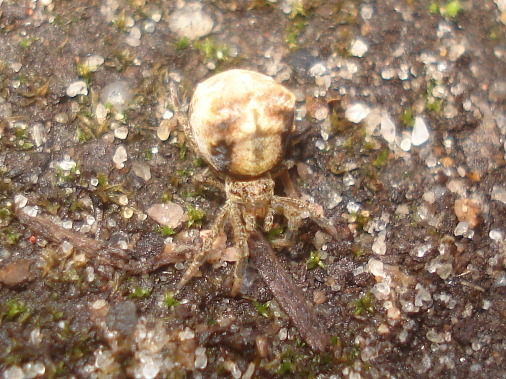 Hyptiotes paradoxus (Araneae: Uloboridae) from Ķemeri National Park (Latvia).